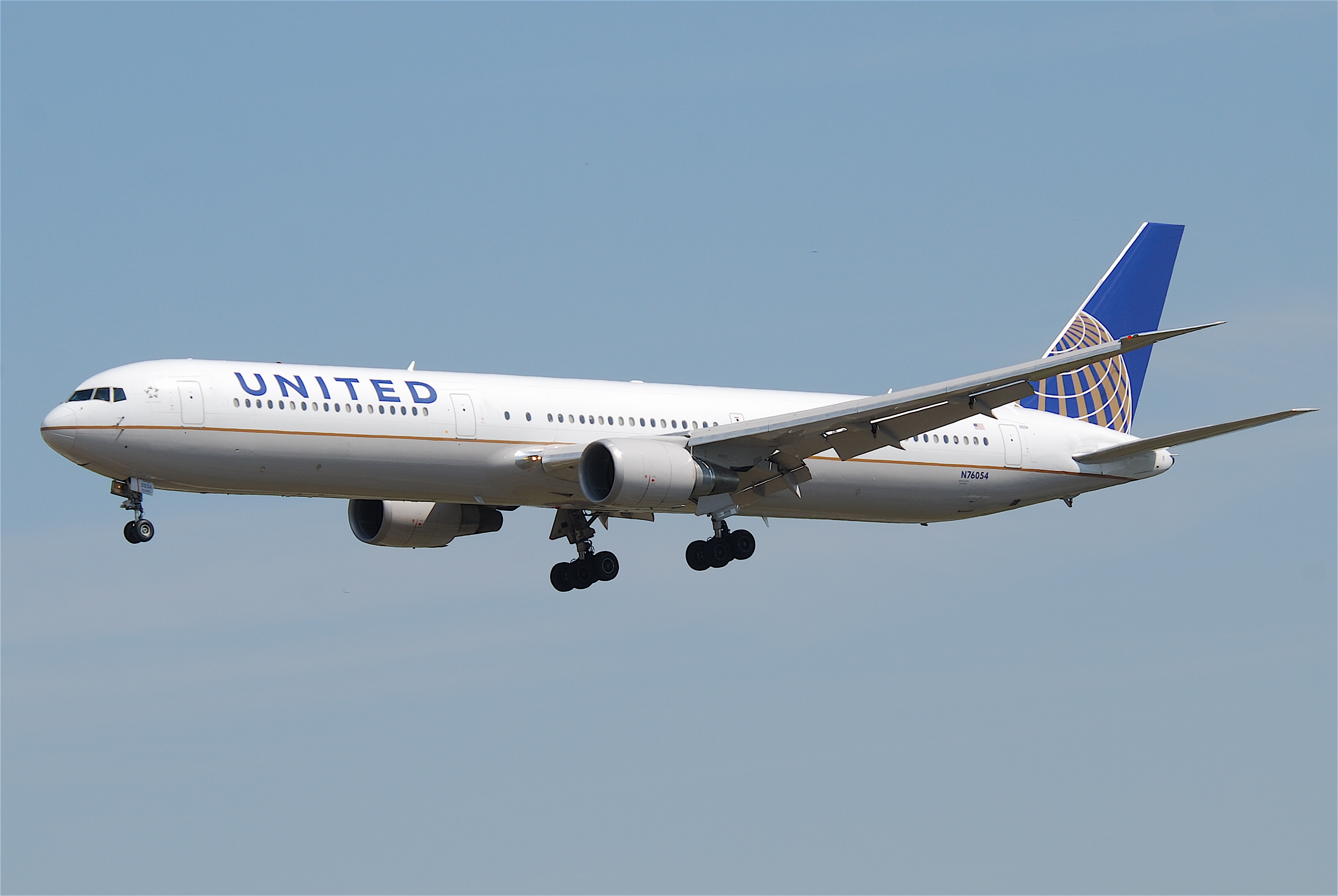 This Boeing 767-424ER took its first flight on November 20, 2000...(c/n 29449/ 816) 04/12/2000 Continental Airlines N76054 03/03/2011 United Airlines N76054